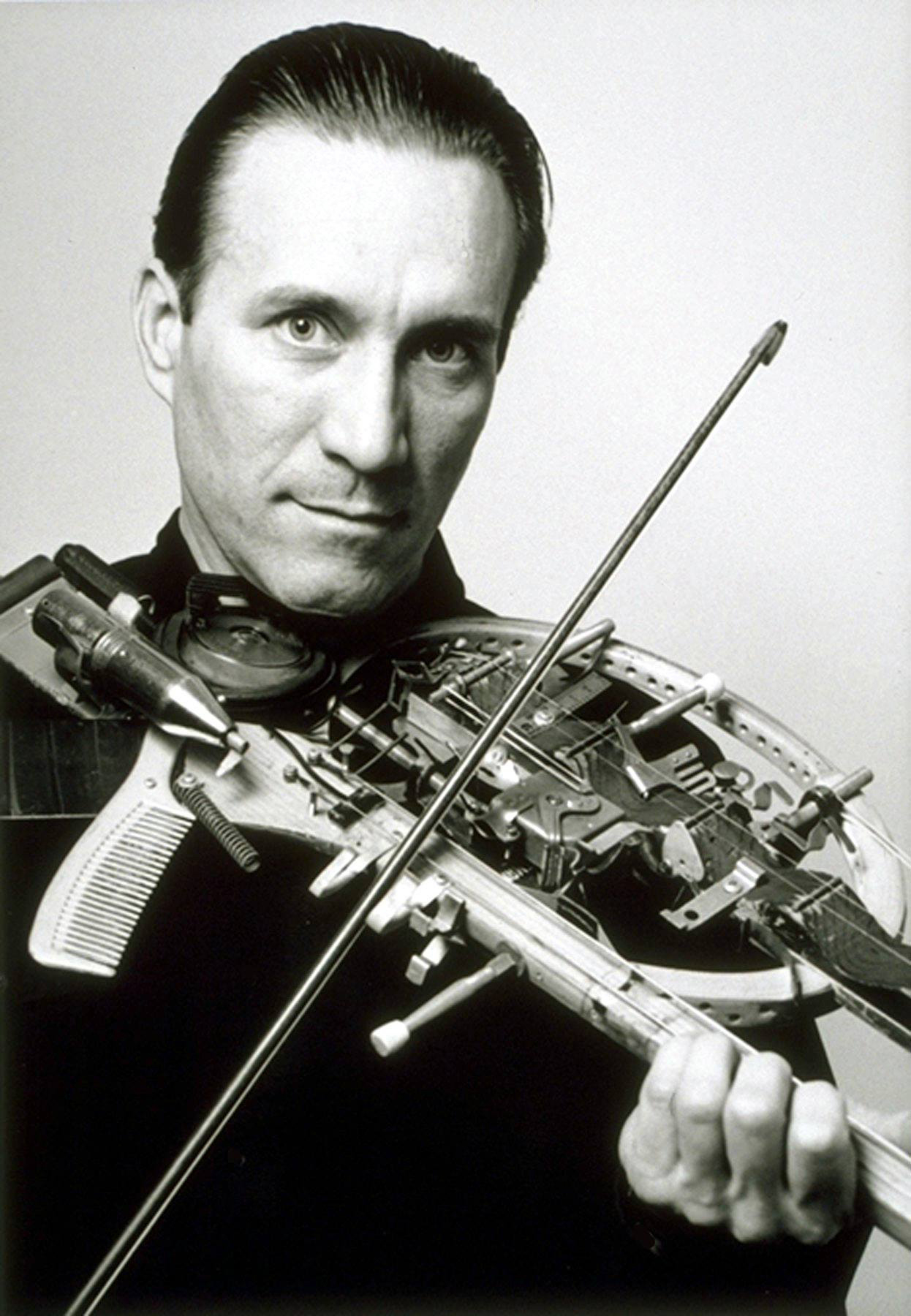 Portrait of Ken Butler, musician